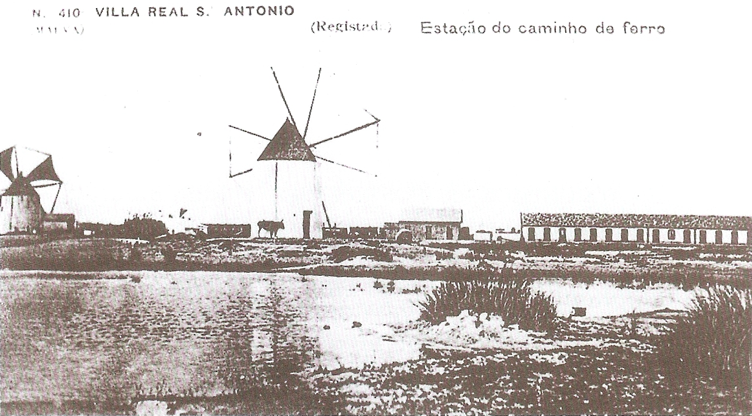 Old Vila Real de Santo António Railway Station, in Portugal. Entered service in 1906, and was replaced by a new station in 1945.